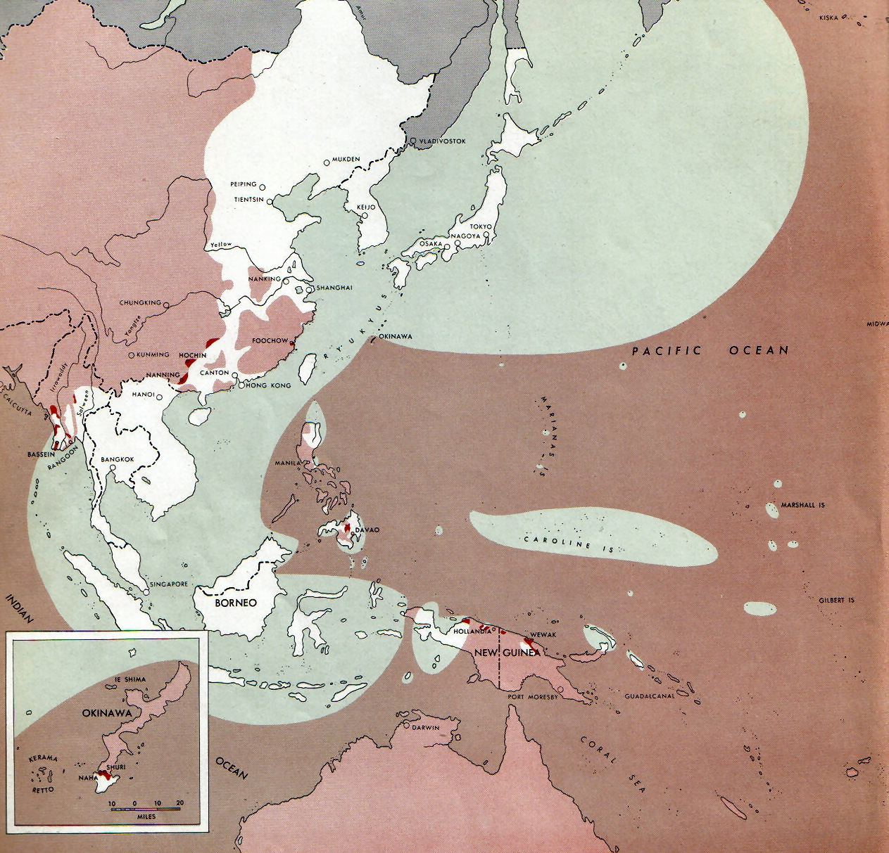 Map of the front against Japan as of 1 June 1945: This map is taken from the source "Atlas of the World Battle Fronts in Semimonthly Phases to August 15th 1945: Supplement to The Biennial report of The Chief of Staff of the United States Army July 1, 1943 to June 30 1945 To the Secretary of War". (See Cover, Forward and Map details)